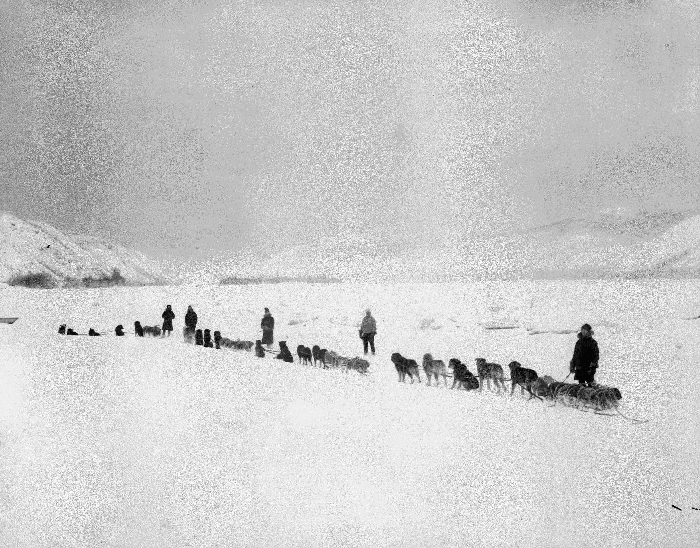 Royal North West Mounted Police patrol Dawson to Herschel December 27, 1909 No 1 (HS85-10-22038) - cleaned; patrol was led by Constable W. J. Dempster and took 32 days to reach Fort McPherson